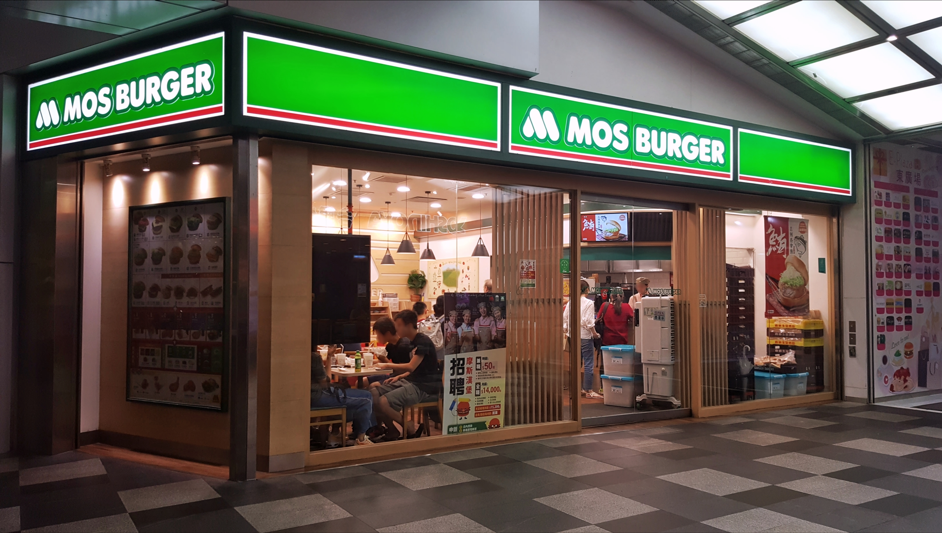 E Plaza Mos Burger in Shing Yip Street, Kwun Tong